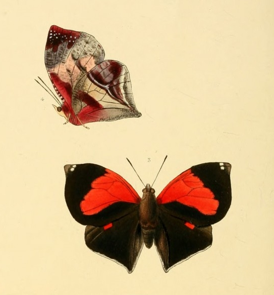 Detail of Siderone syntyche Hewitson, 1854